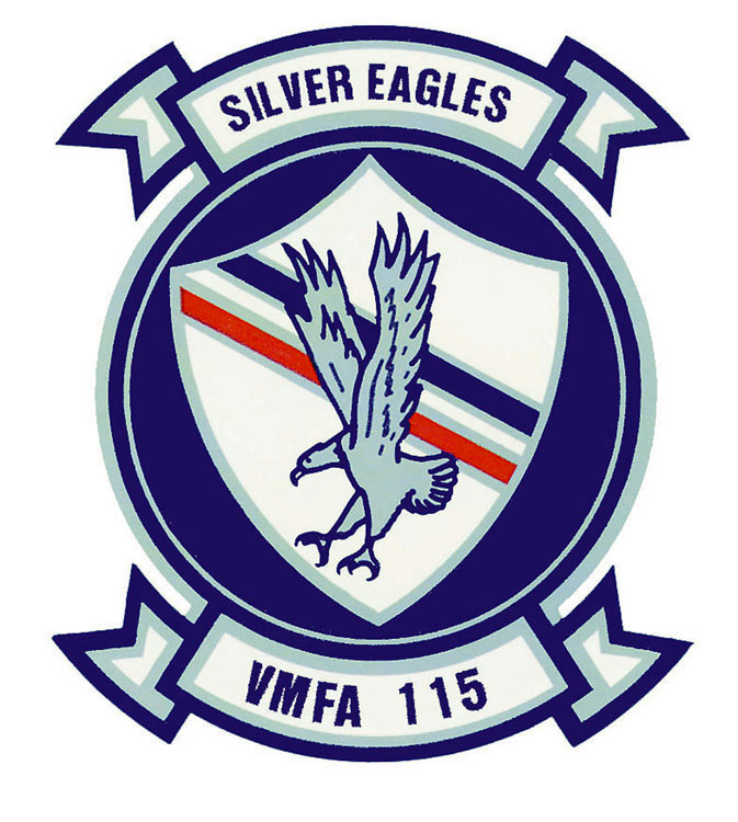 From the Depart of Defense image search website - Defense Visual Information Center. Picture comes up if you search for VMFA 115 ID: DM-SD-04-00638 Service Depicted: Marines Command Shown: M The logo for the Silver Eagles, Marine Fighter Attack Squadron 115 (VMFA 115) Squadron, Marine Corps Air Station (MCAS) Beaufort, South Carolina. Location: MCAS, BEAUFORT, SOUTH CAROLINA (SC) UNITED STATES OF AMERICA (USA) Date Shot: 4 Jun 2003